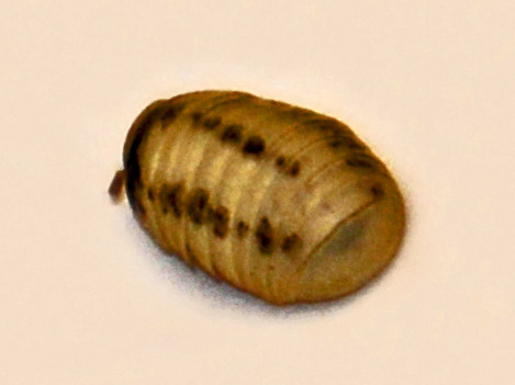 Glomeris klugii from Italy. Museum specimen